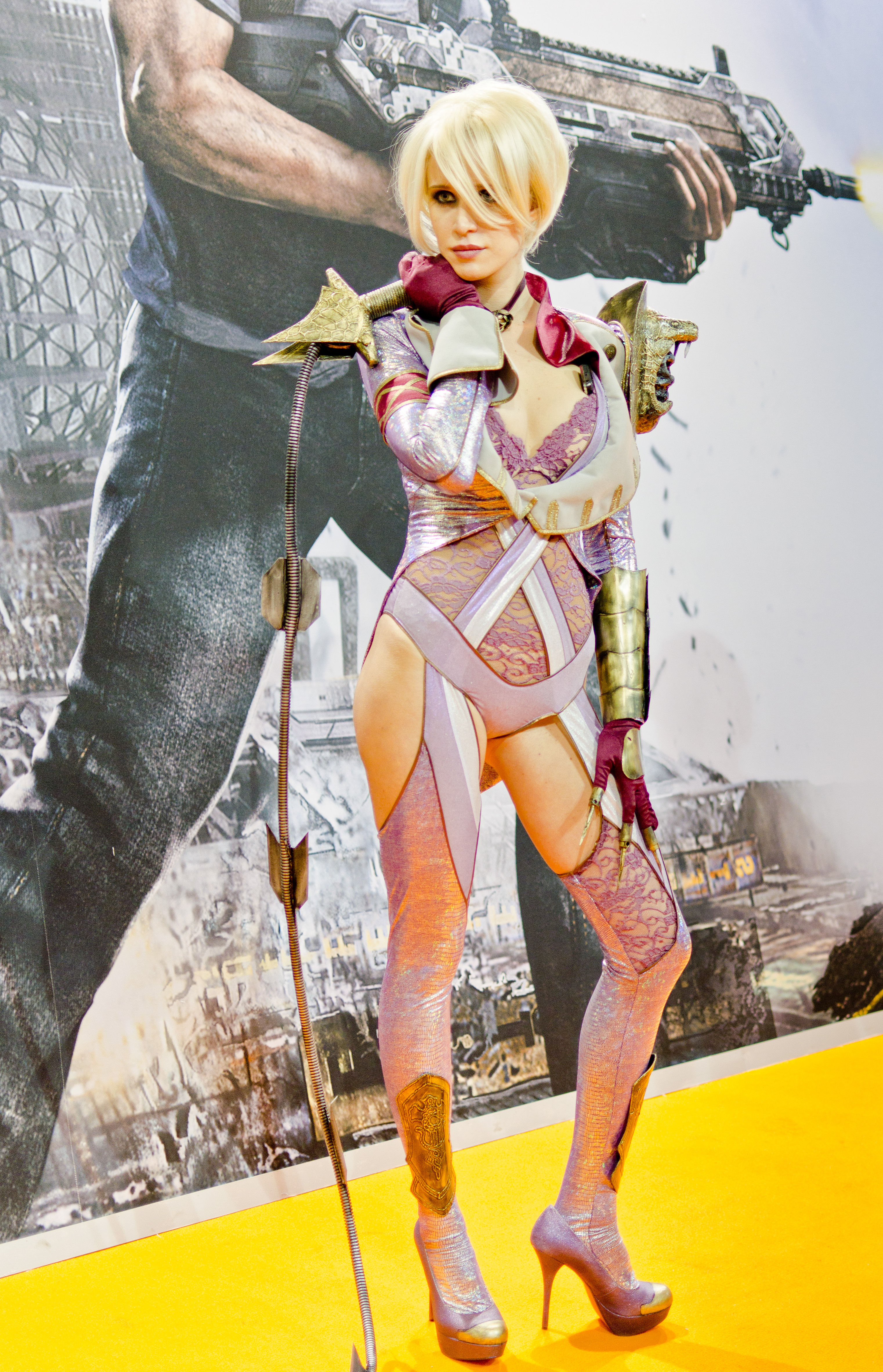 Taken on October 6, 2011 Nikon D5100